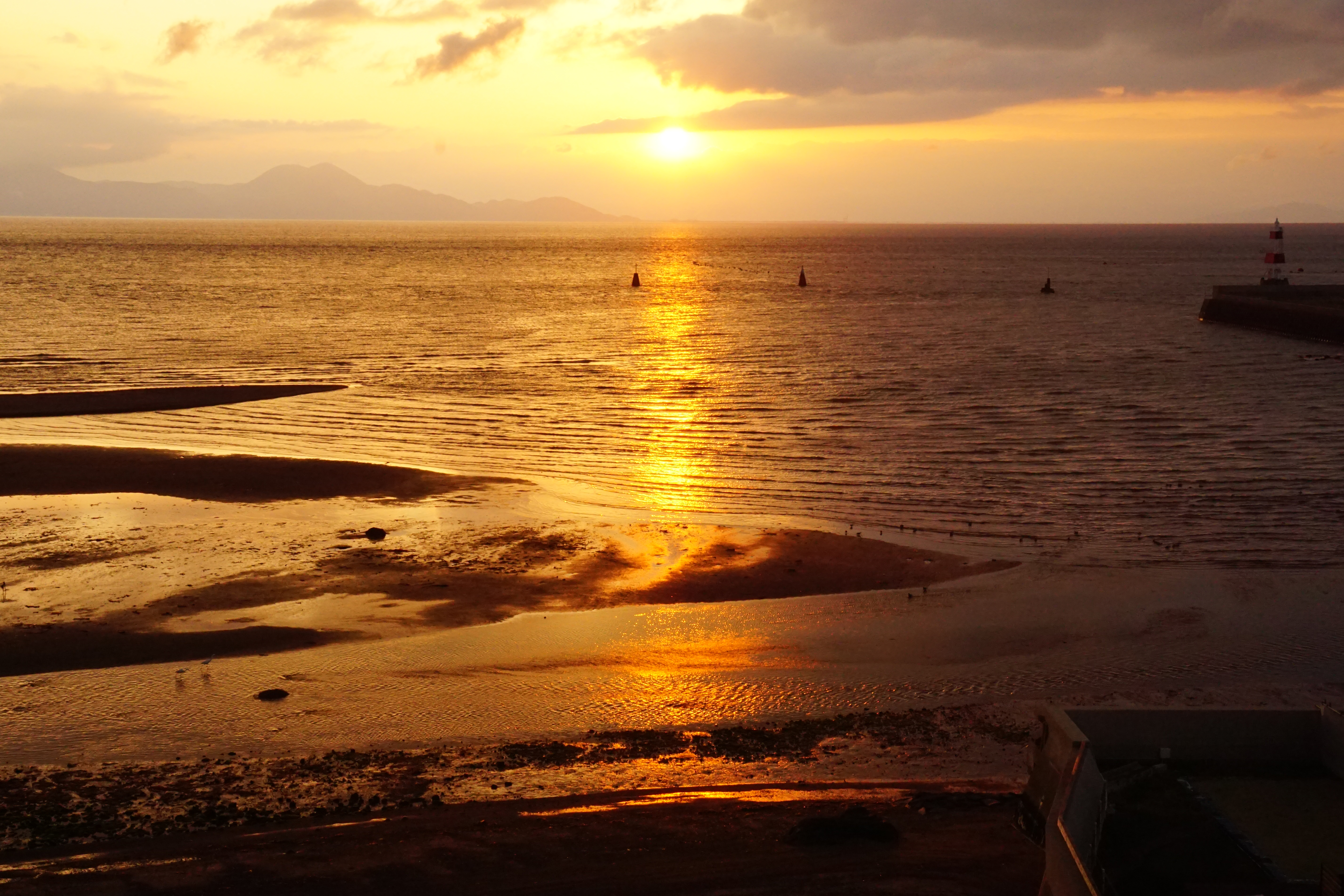 A view of the morning sun of Shimabara Bay from Hotel Nampuro in Shimabara, Nagasaki prefecture, Japan.